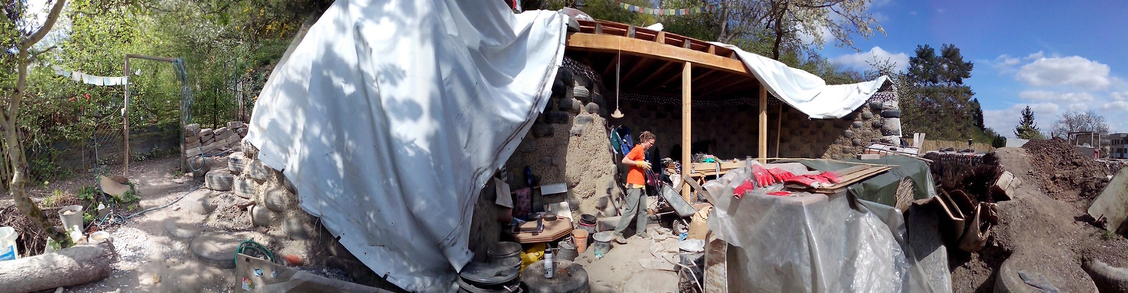 Earthship Prague - in construction